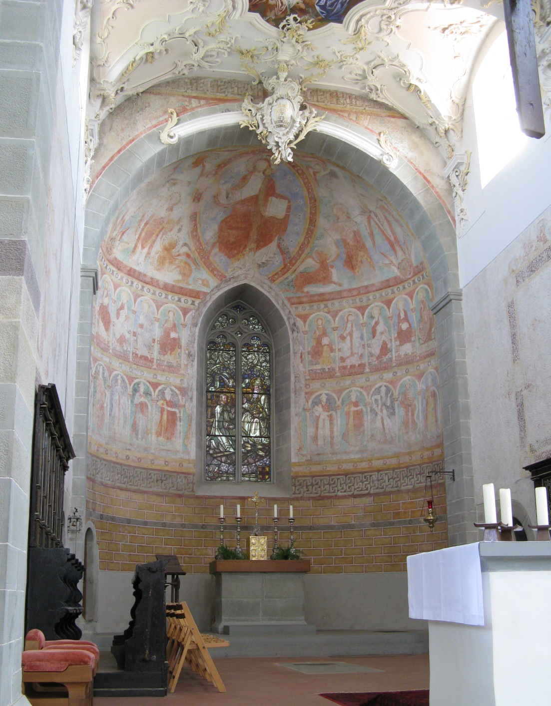 Church St. Peter and Paul, Reichenau, Germany